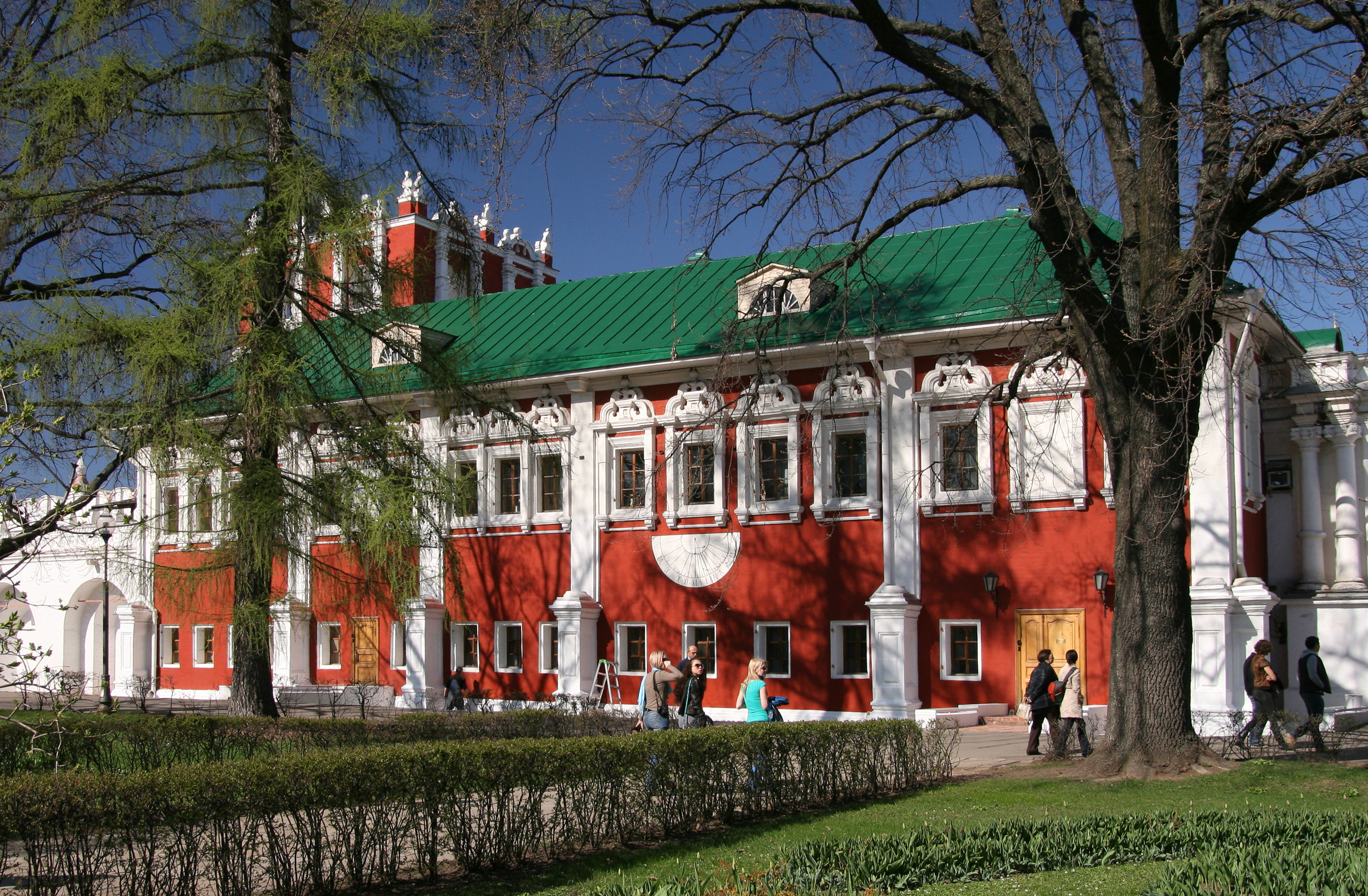 Lopukhina Chamber, Novodevichy Convent